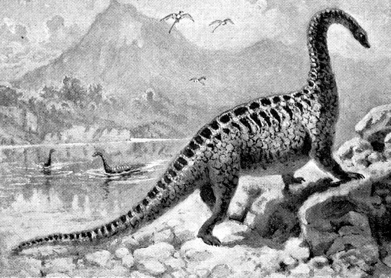 Illustration of the sauropod dinosaur Amphicoelias by Carl Dahlgren (1841-1920), from an 1892 issue of Californian Magazine.